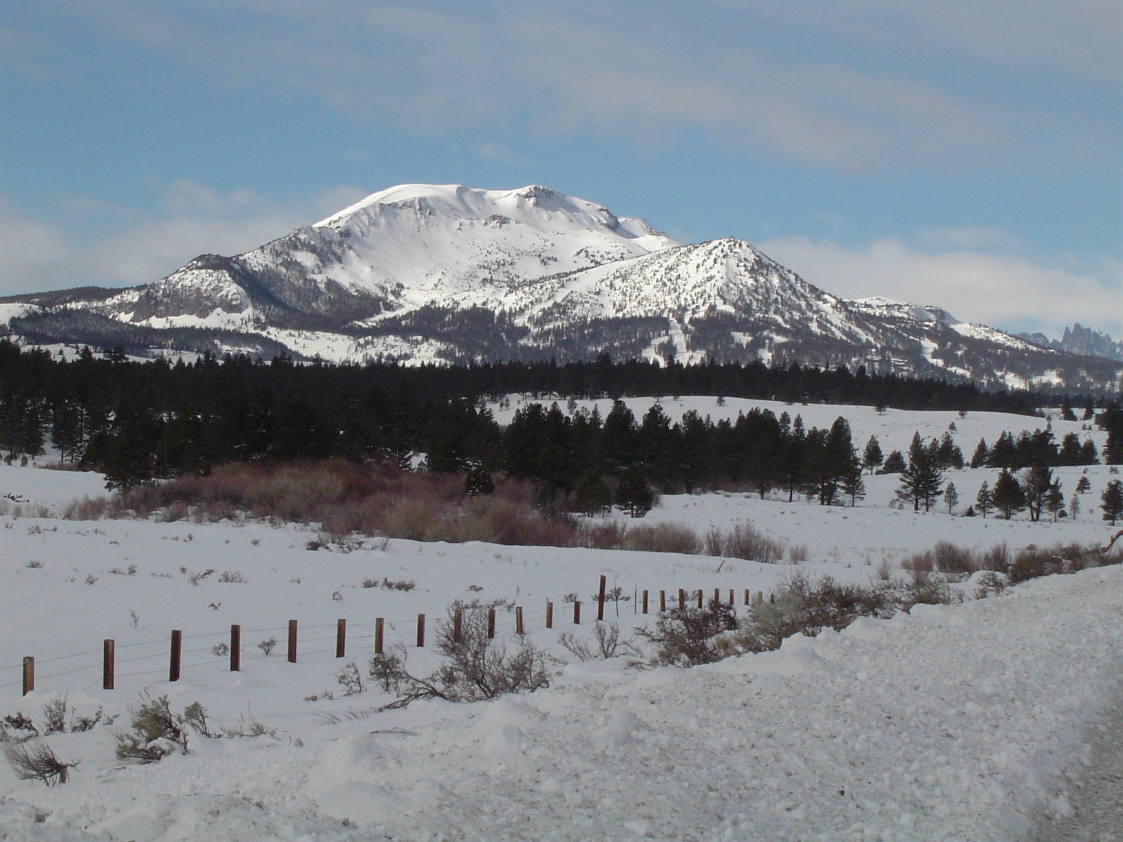 Mammoth Mountain as seen from US Highway 395.